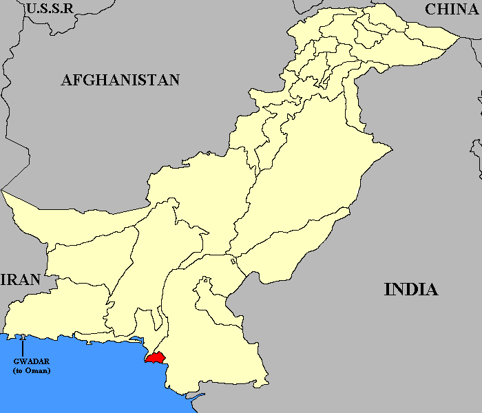 Approximate location of the former Federal Capital Territory of Pakistan